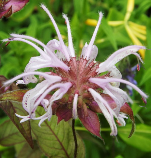 Monarda bradburiana in North Carolina